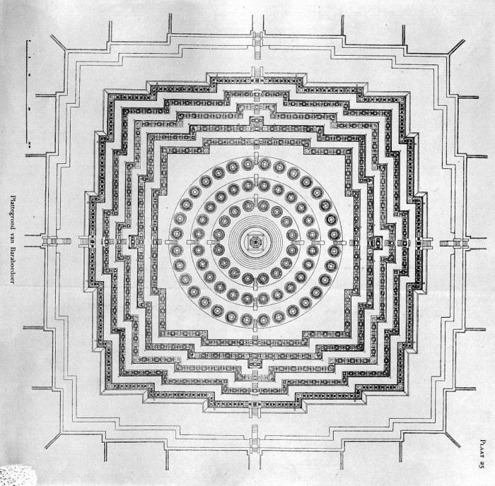 Plan of the Borobudur